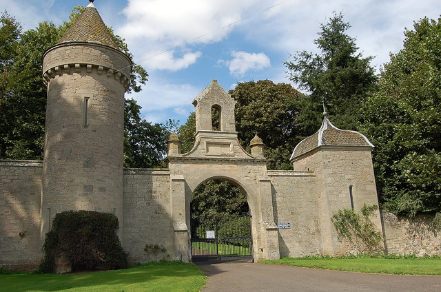 Entrance gate, Duns Castle Not a public entrance, but there are footpaths into the surrounding estate accessible from the town.